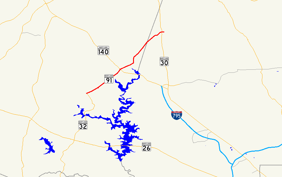 Map of Maryland Route 91